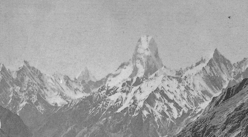 The Mustagh Tower taken from the Upper Baltoro Glacier during the 1909 Italian expedition to K2. This photograph, in which the tower appears as an impregnable tooth, was to inspire mountaineers many years later, but the tower proved to be less steep than it appears.